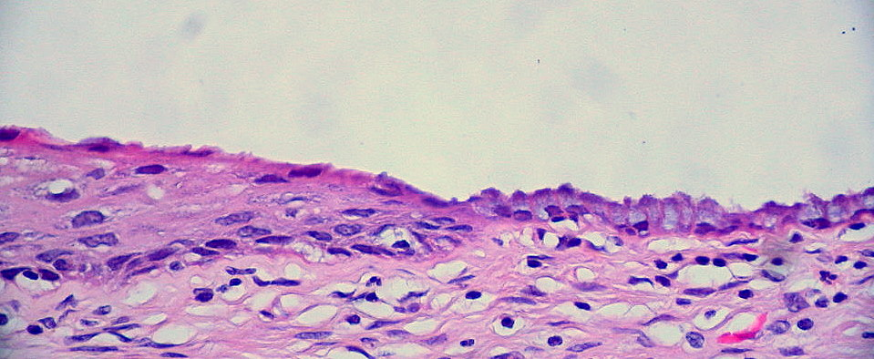 An unusually "clean" squamocolumnar junction of the uterine cervix, representing the boundary between the exocervix on the left, and the endocervix on the right. This is the "hot spot" where the tiny seedlings of dysplasia grow into the mighty oaks of cervical cancer. Accordingly, it's important to sample this area while collecting a Pap smear specimen. H&E, 400X Pathological and histological images courtesy of Ed Uthman at flickr.